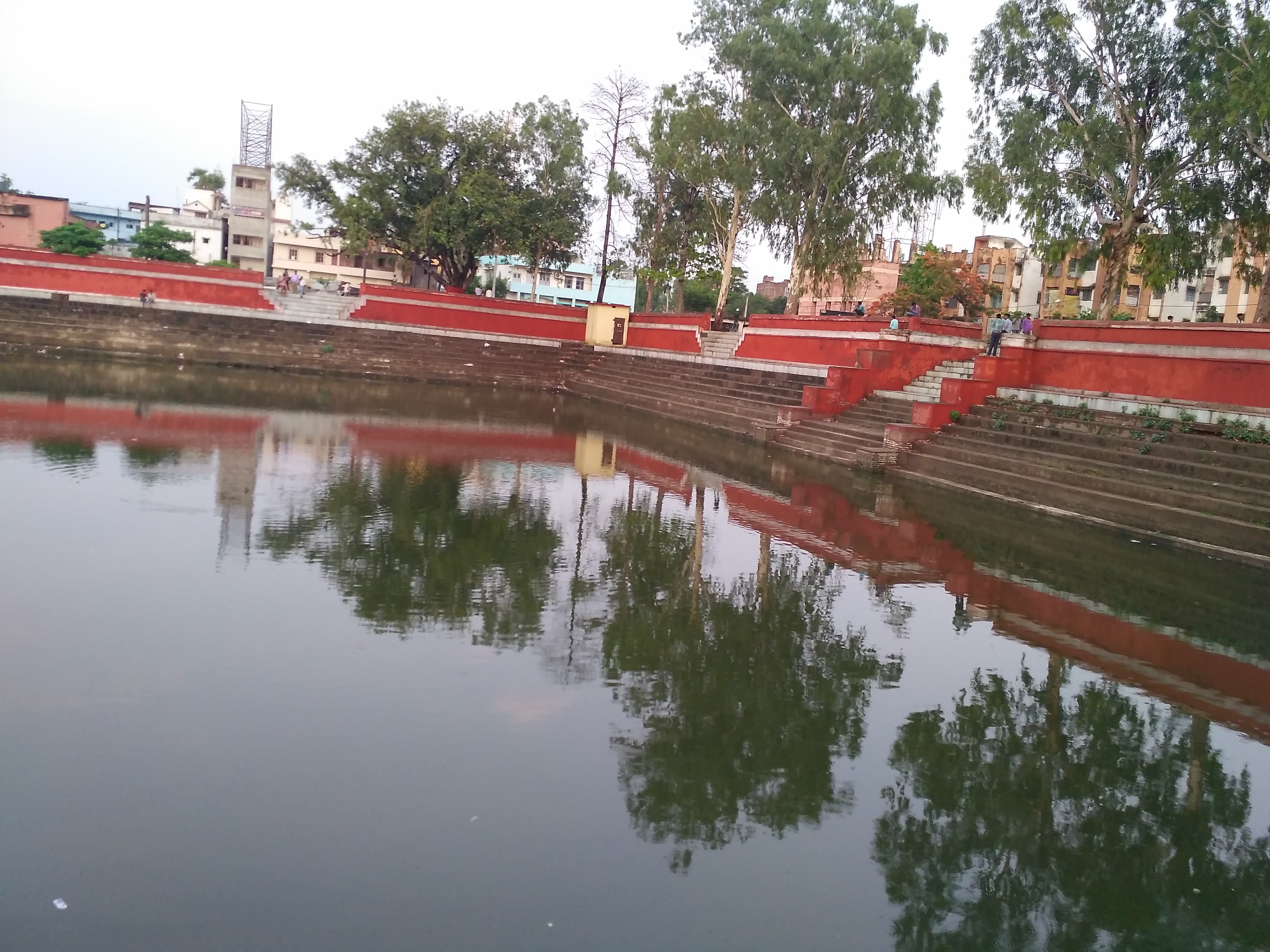 This is a pond in anisabad,Patna Bihar